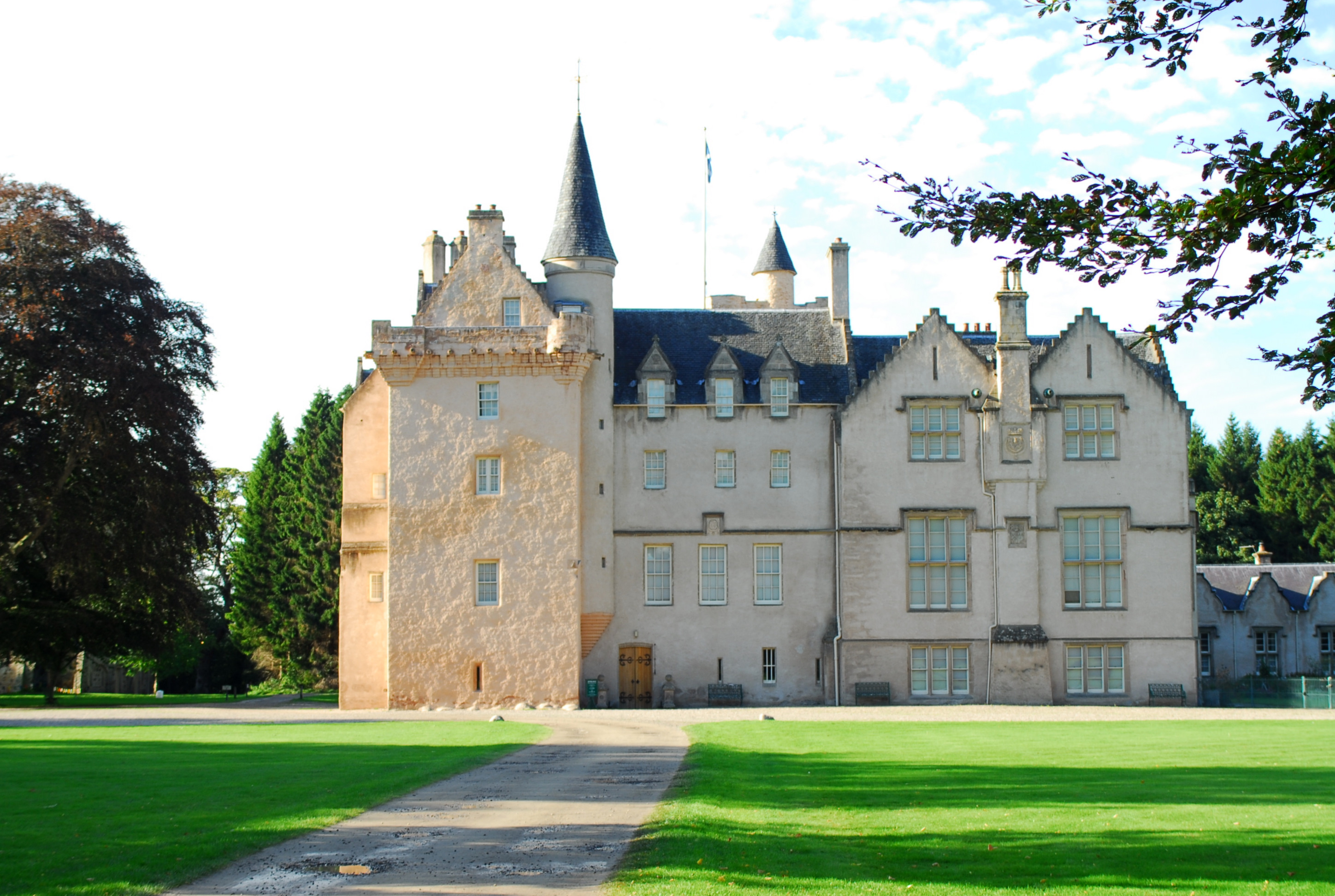 Brodi Castle, Scotland